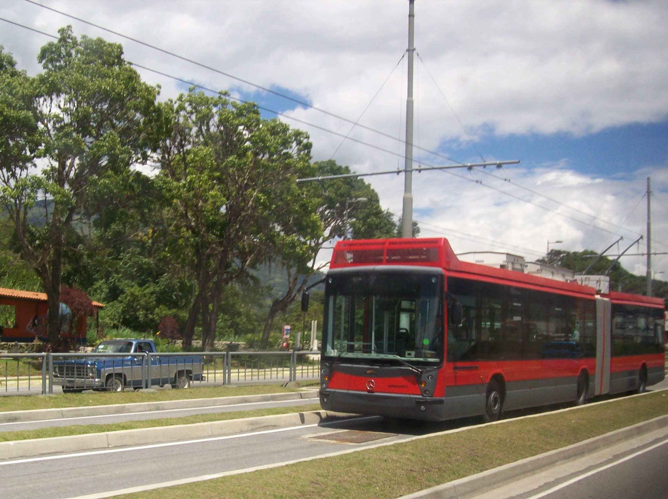 A trolleybus of the Mérida trolleybus system, running in a bus-only lane, before the system opened for regular service